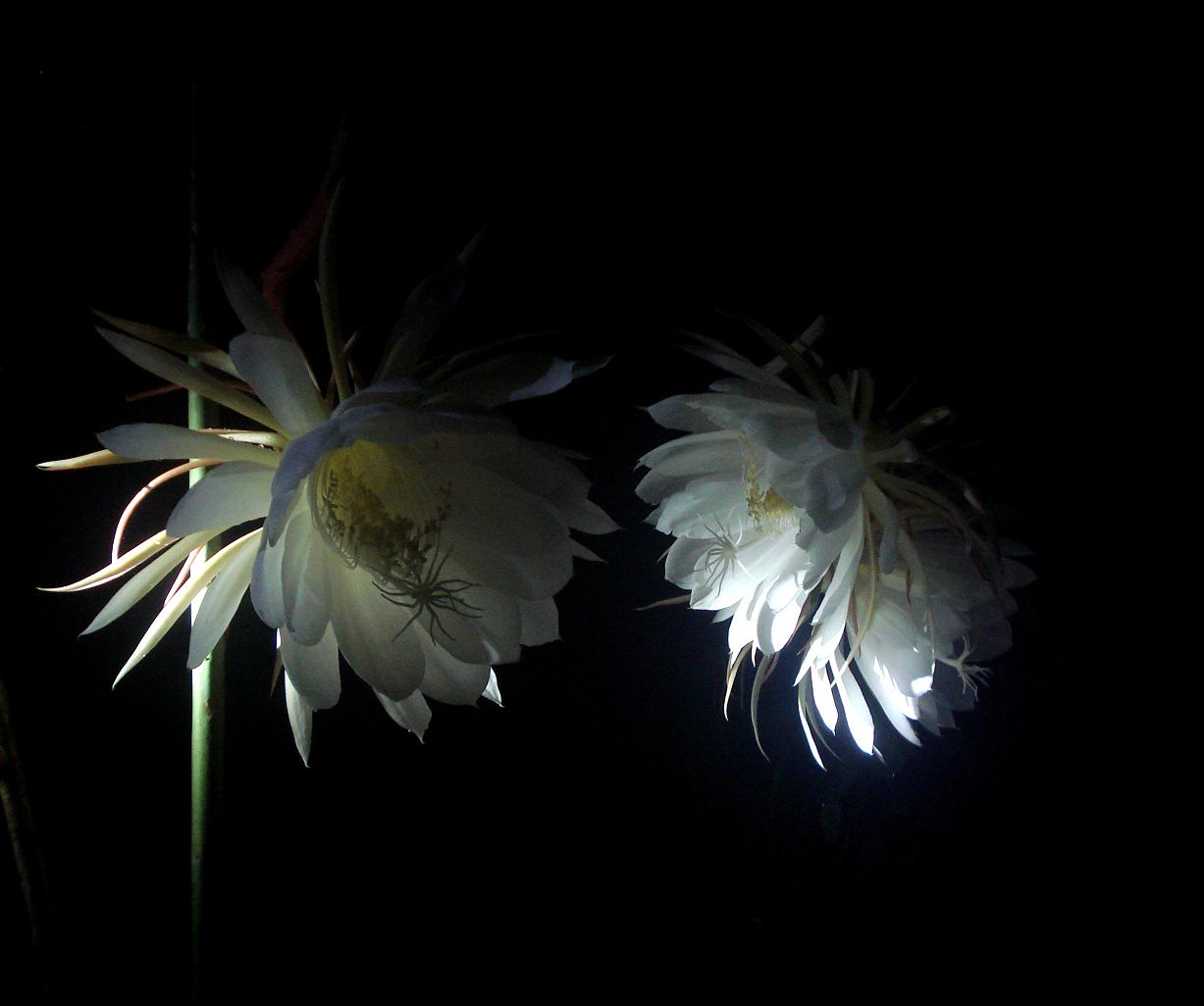 Name : Epiphyllum oxypetalum Family : Cactaceae This is a large epiphytic cactus is called Dutchman's-Pipe Cactus and also known as the Queen of the night.